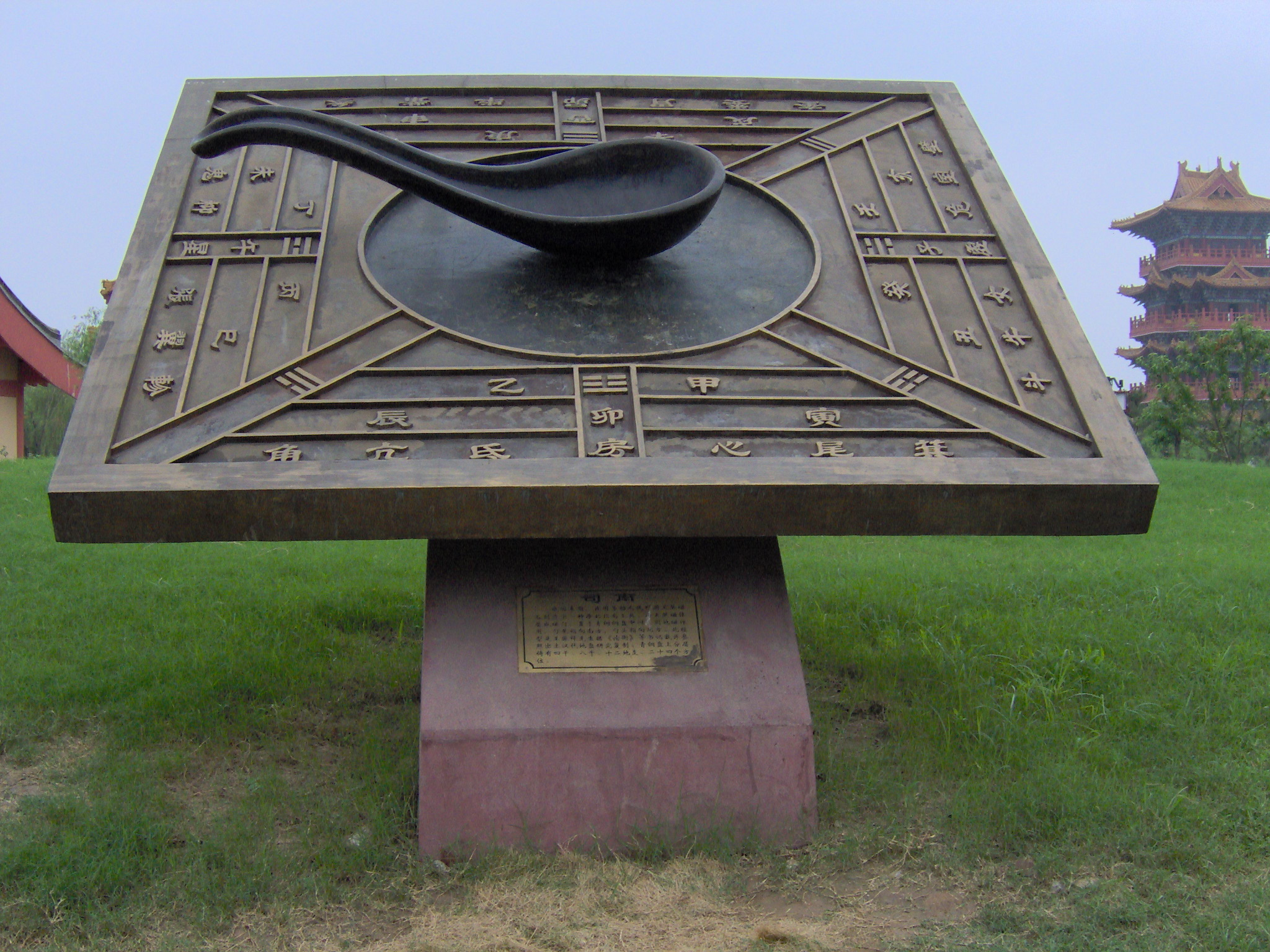 Antic chinese Compass, picture took in Kaifeng, Henan, China.